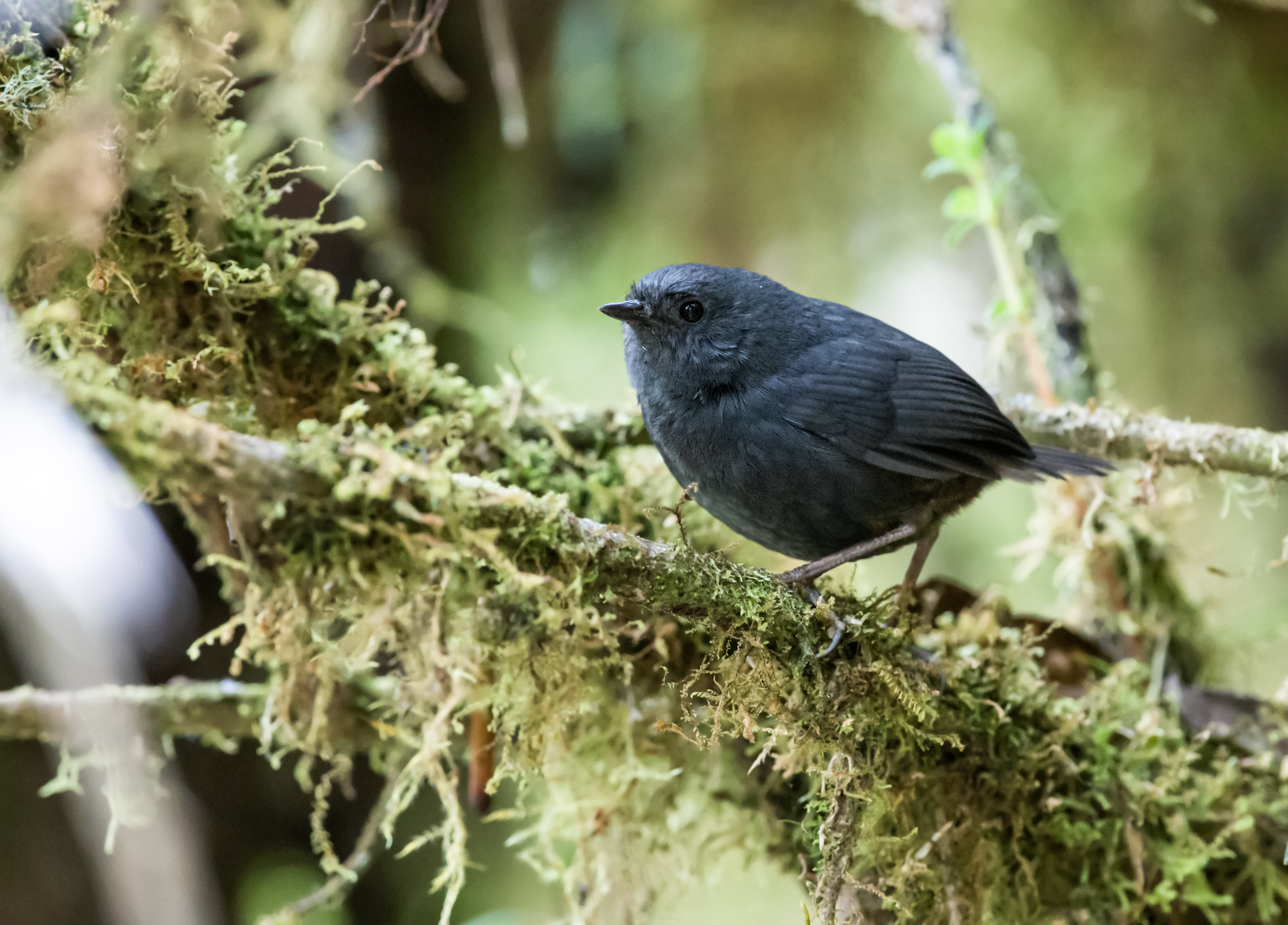 Tschudi's Tapaculo from Bosque Unchog, Húanuco, Peru